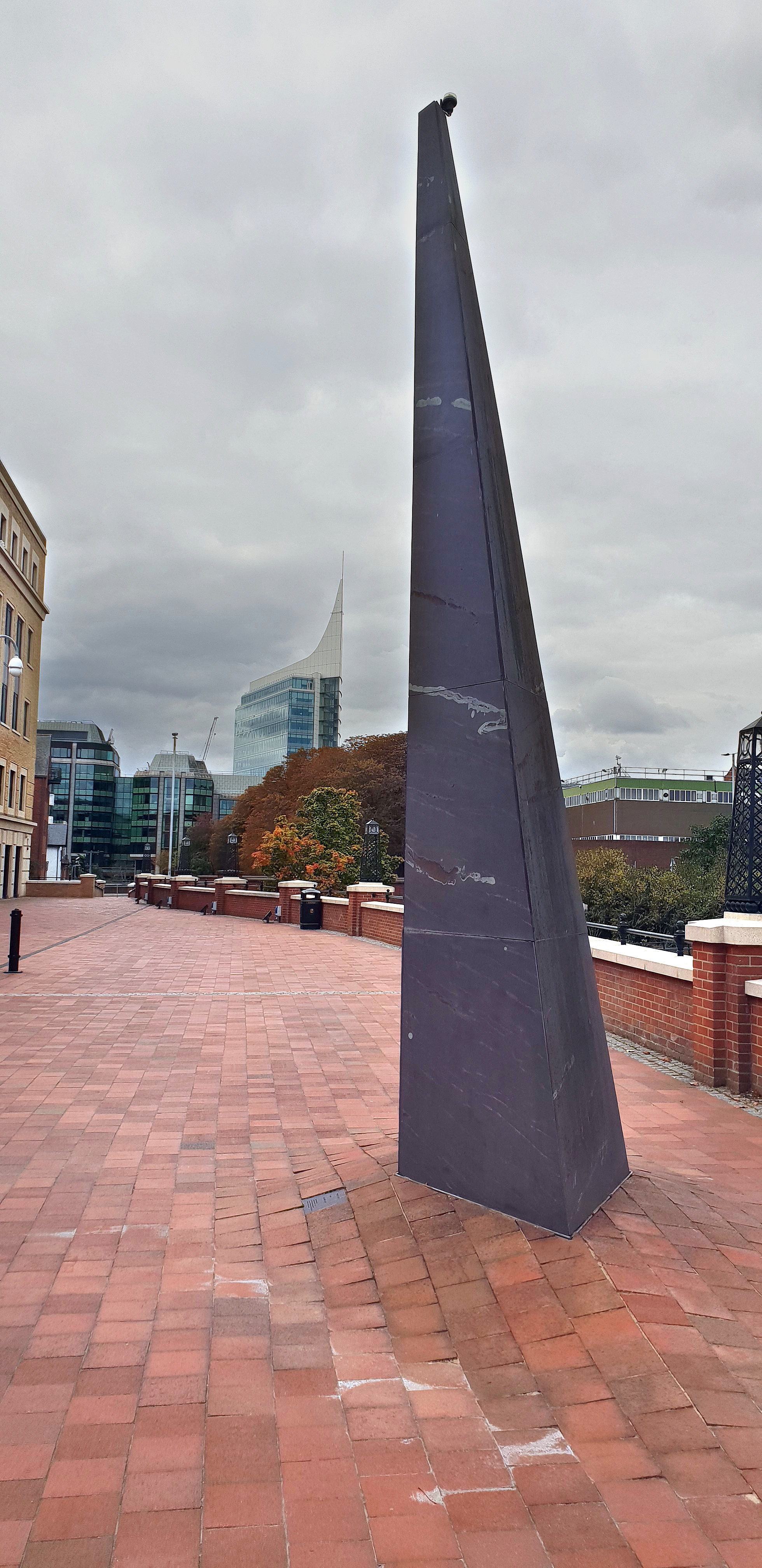 Inner Light by Liliane Lijn, overlooking the River Kennet behind the Prudential Offices, Kings Road, Reading. Viewed looking west.